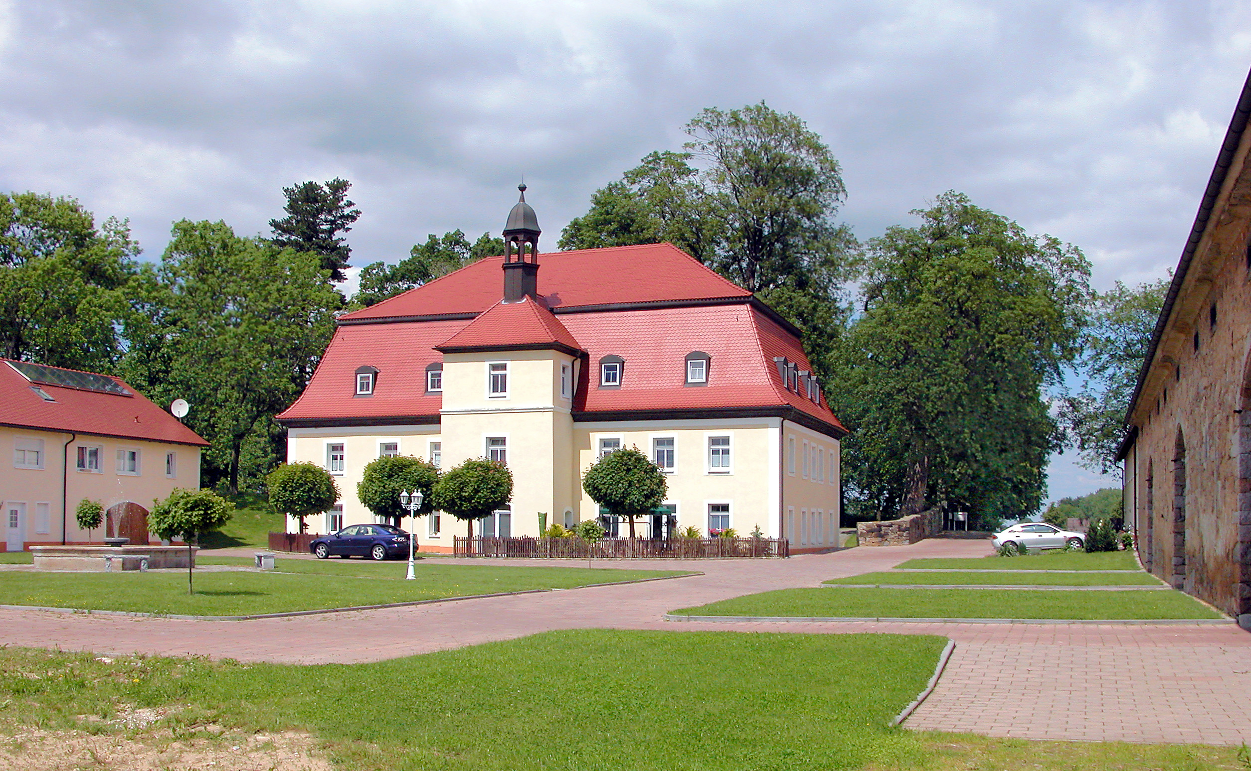 02.06.2006 01877 Thumitz (Demitz-Thumitz), Am Schloss 1: Barockschloß (GMP: 51.144958,14.252432), erbaut vermutl. 1709 unter Wolfgang Haubold von Polenz. Heute Mehrfamilienhaus. Sicht von Süden, Hofseite. [DSCN10311.TIF]20060602100DR.JPG(c)Blobelt